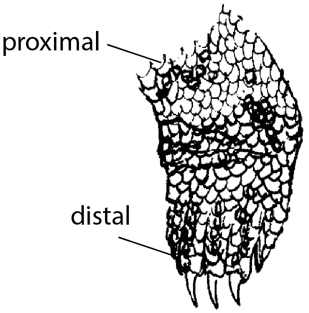 Standard Event System character depiction